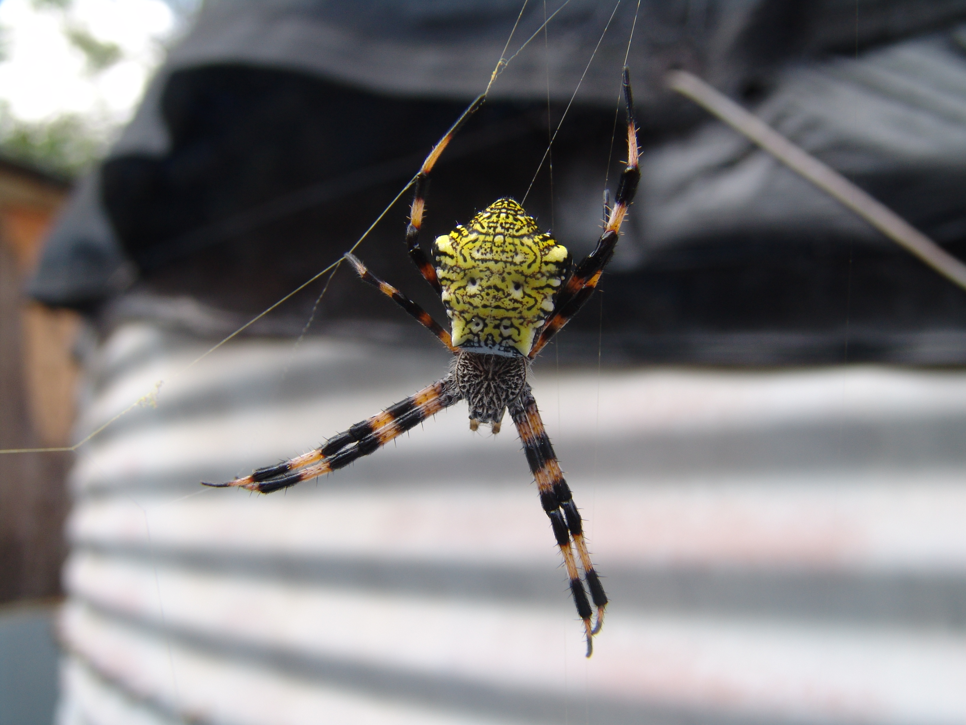 Argiope appensa. (also called "banana spider" in Guam) This is NOT a cane spider. (Cane spiders don't spin webs, as the main article points out.)